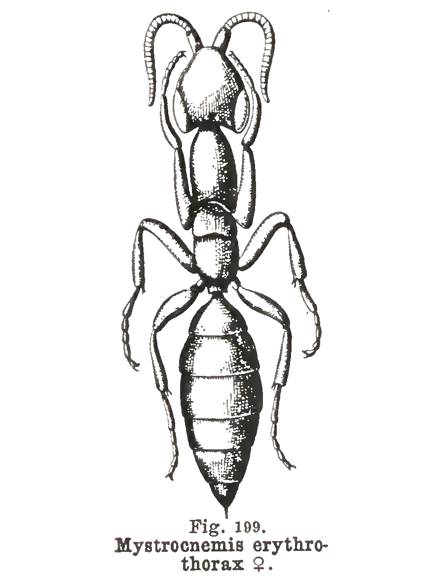 Parasclerogibba erythrothorax female